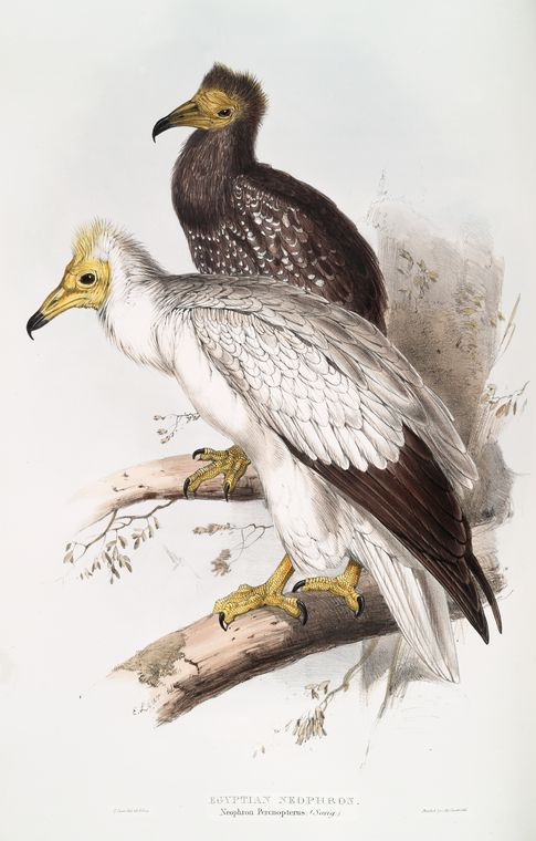 Neophron percnopterus (Egyptian Vulture)